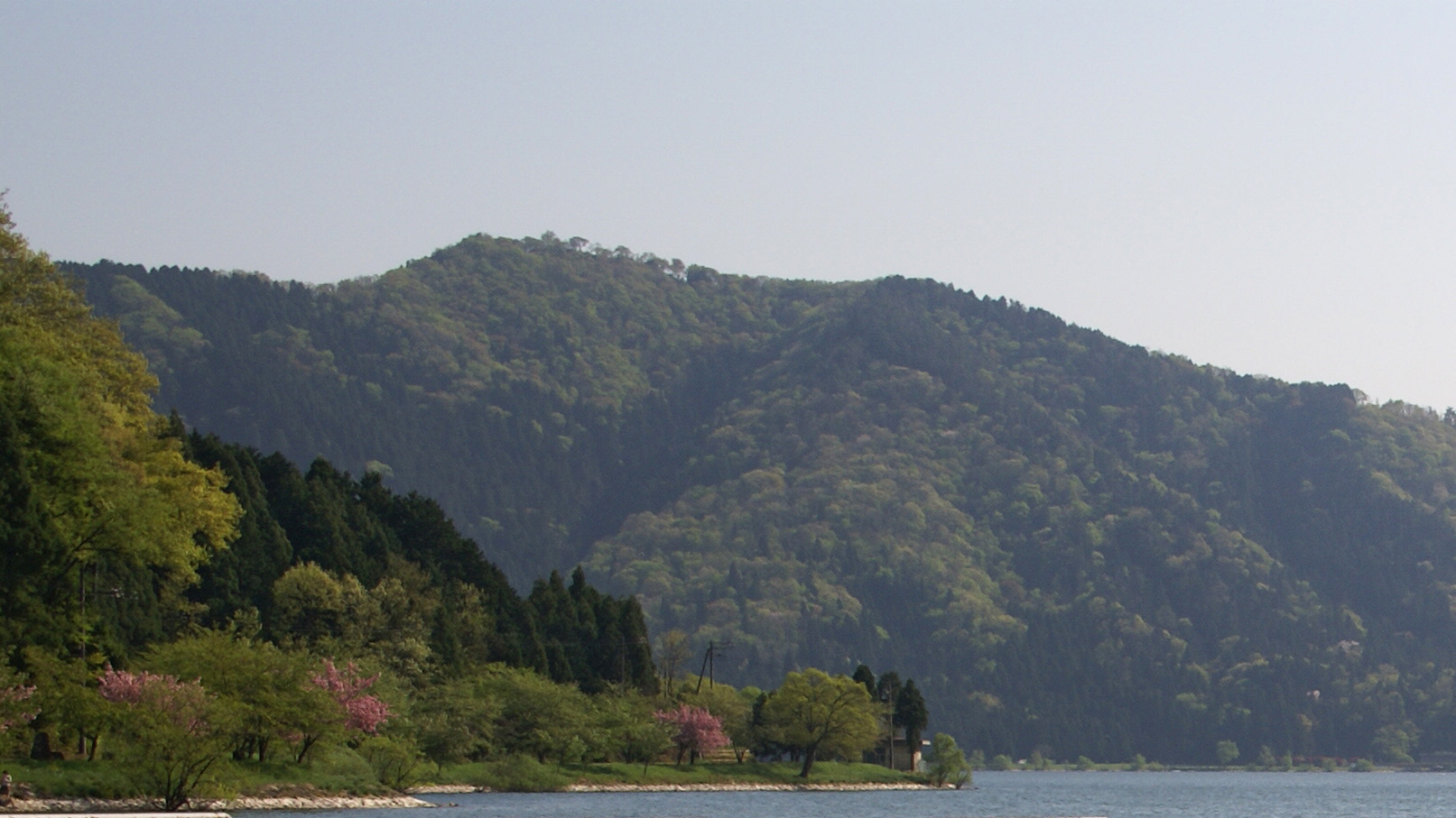 Shizugatake seen from the NNE. Taken from Lake Yogo.